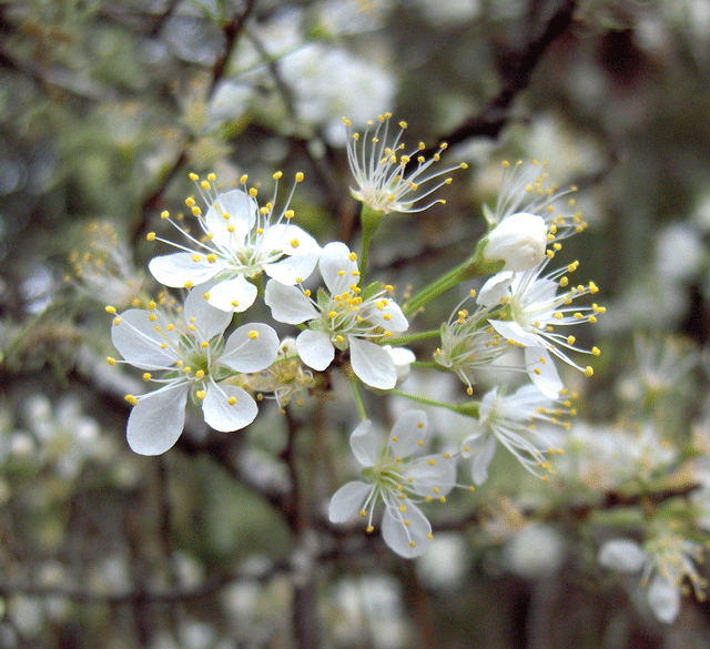 Chickasaw Plum flowers (Prunus angustifolia) Found in Silver River State Park, Florida